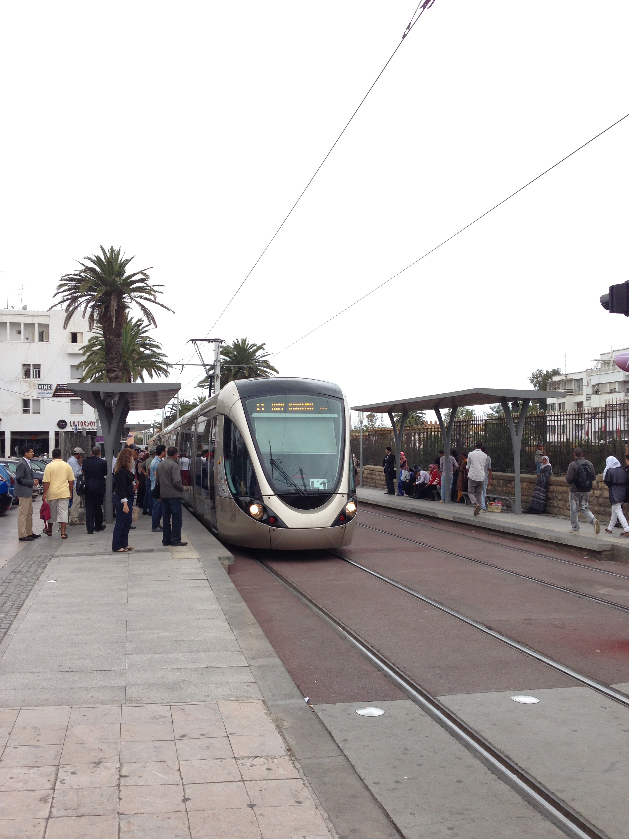 Tram Rabat-Salé at Rabat-Ville station